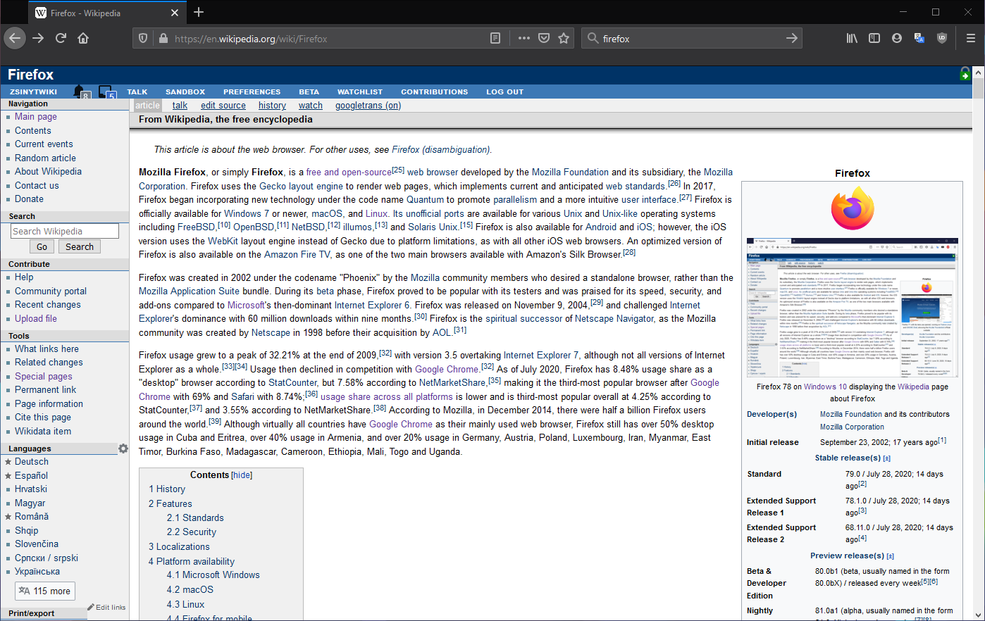 Firefox 79 running on Windows 10 in dark theme, showing Wikipedia article about Firefox